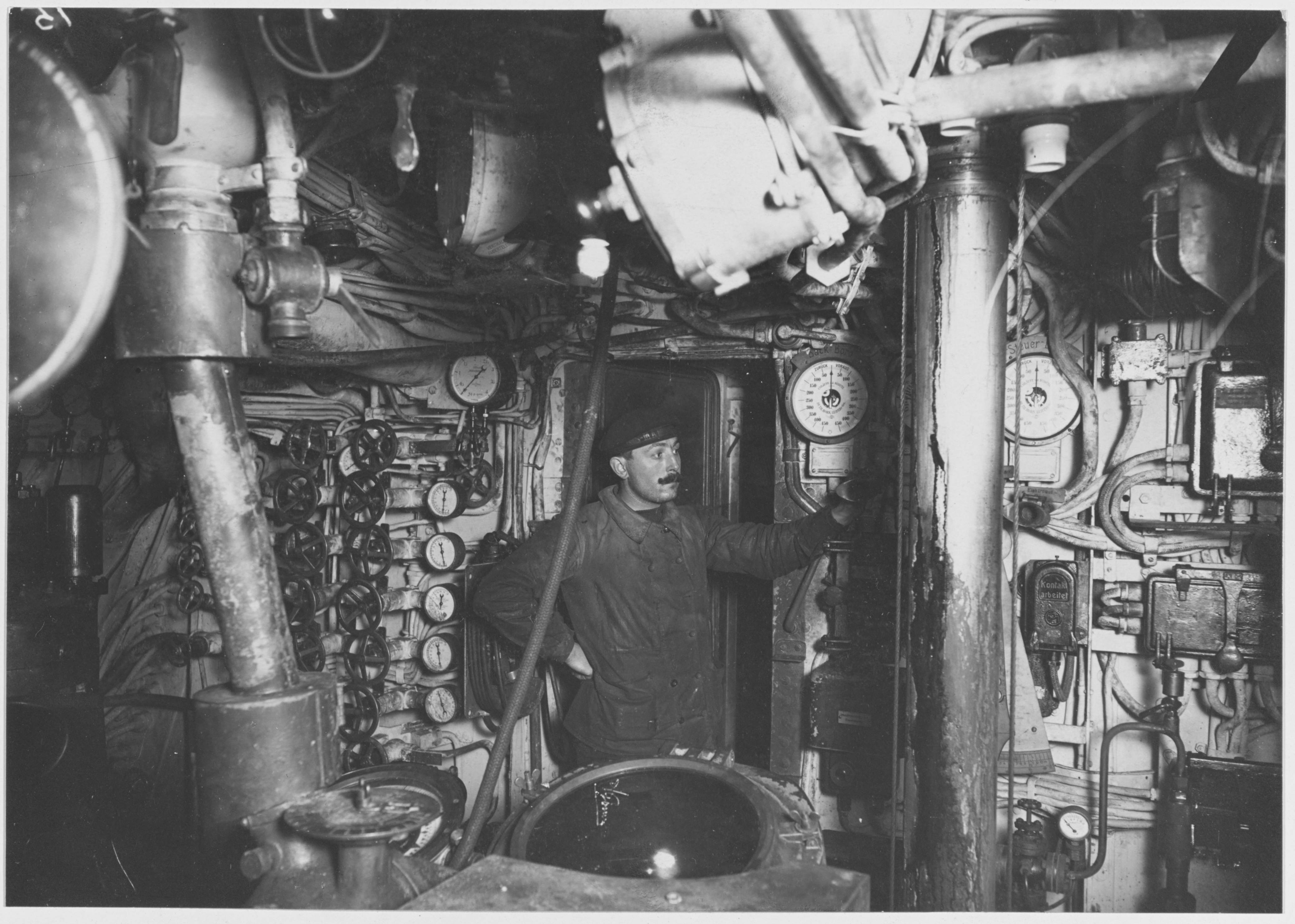 Title: German Submarine UC-58 Caption: Interior of a German submarine.